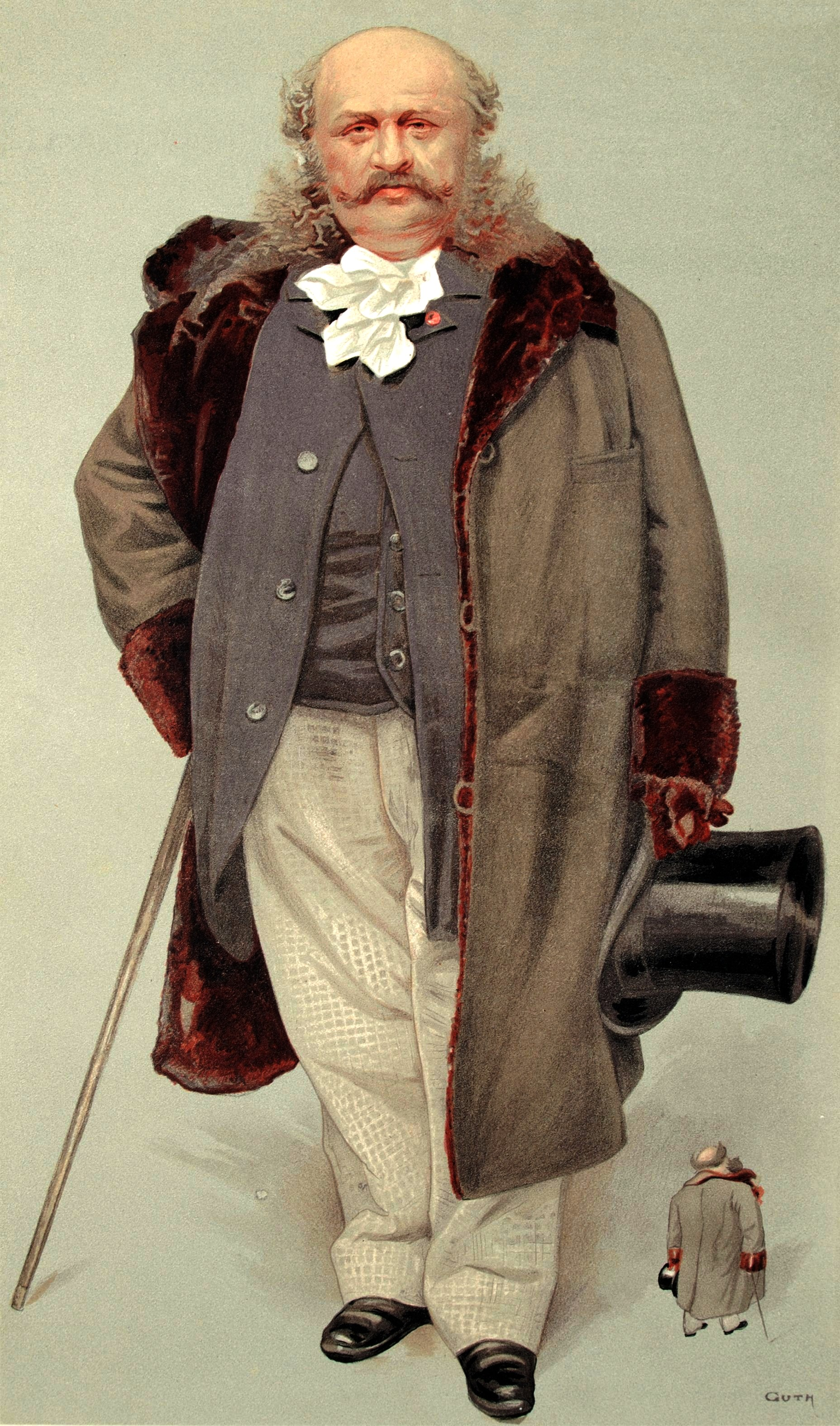 Men of the Day No.451: Caricature of M. Henri de Blowitz. Caption reads: "'The Times' in Paris"